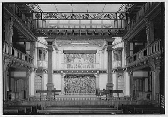 Folger Shakespeare Library 201 E. Capitol St., Washington, D.C. Theater to stage, axis view II